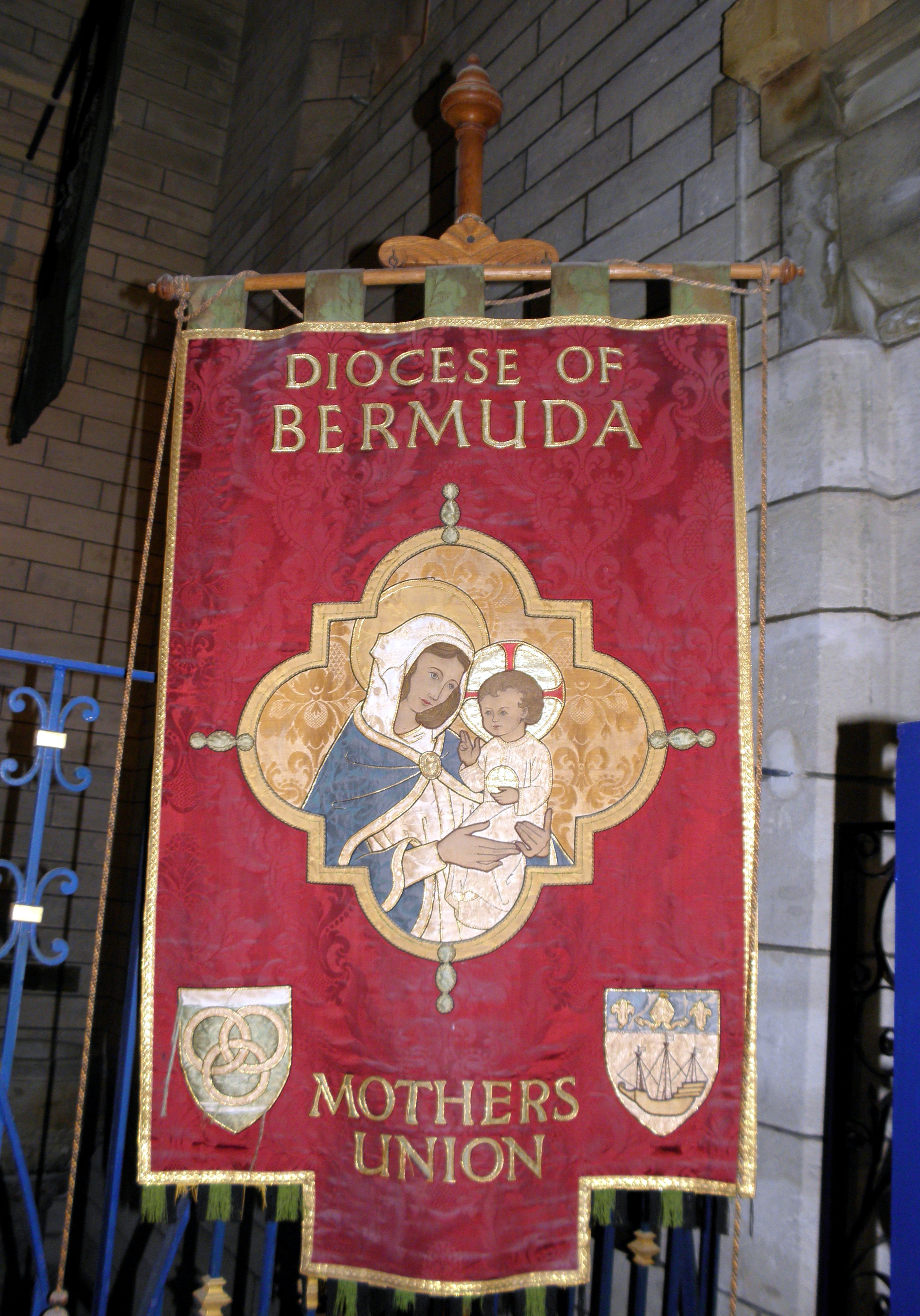 Religious standard of the Anglican Diocese of Bermuda, within the Anglican Cathedral of the Most Holy Trinity, in Hamilton, Bermuda.